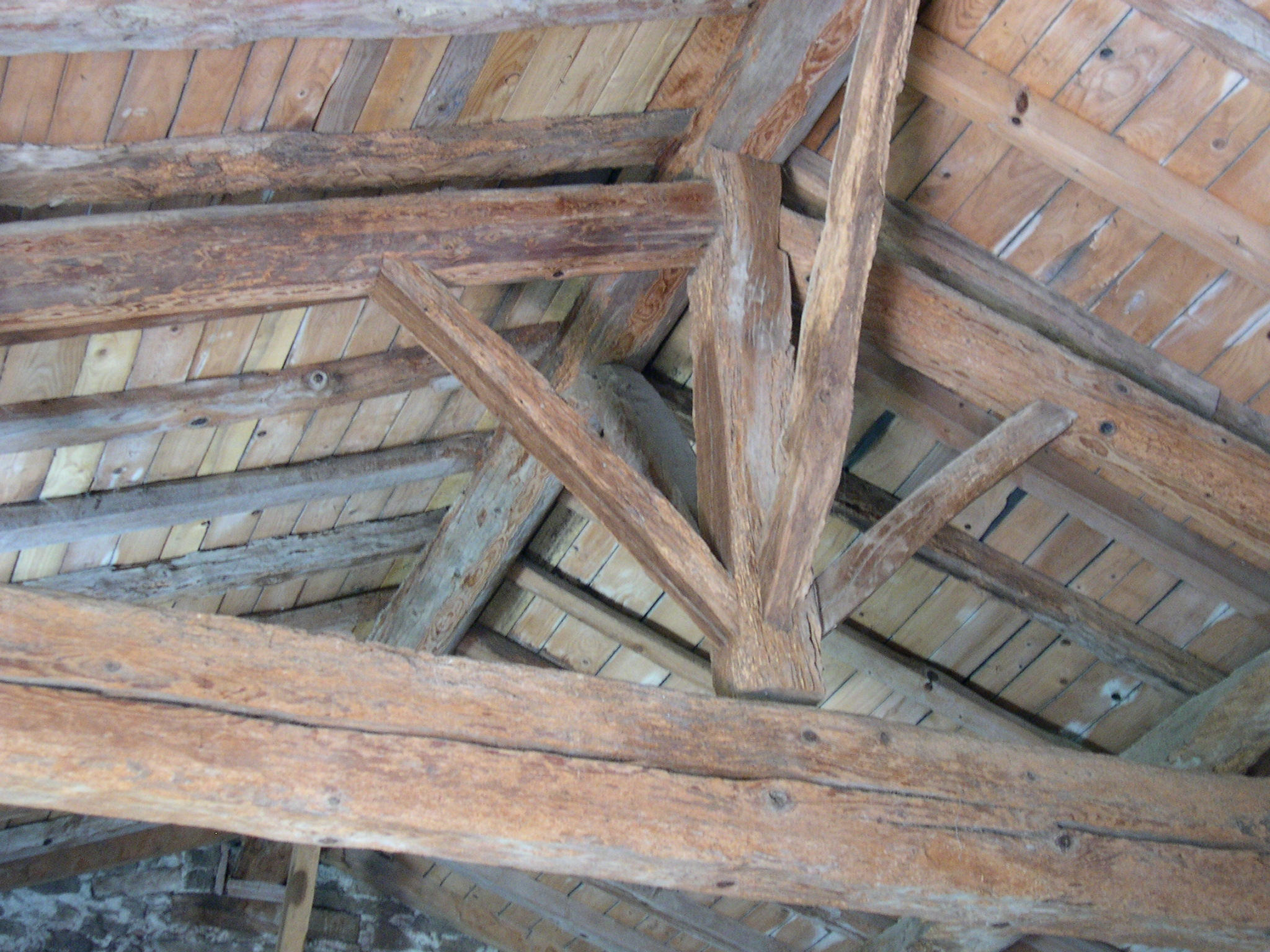 Wood carpentry - close view